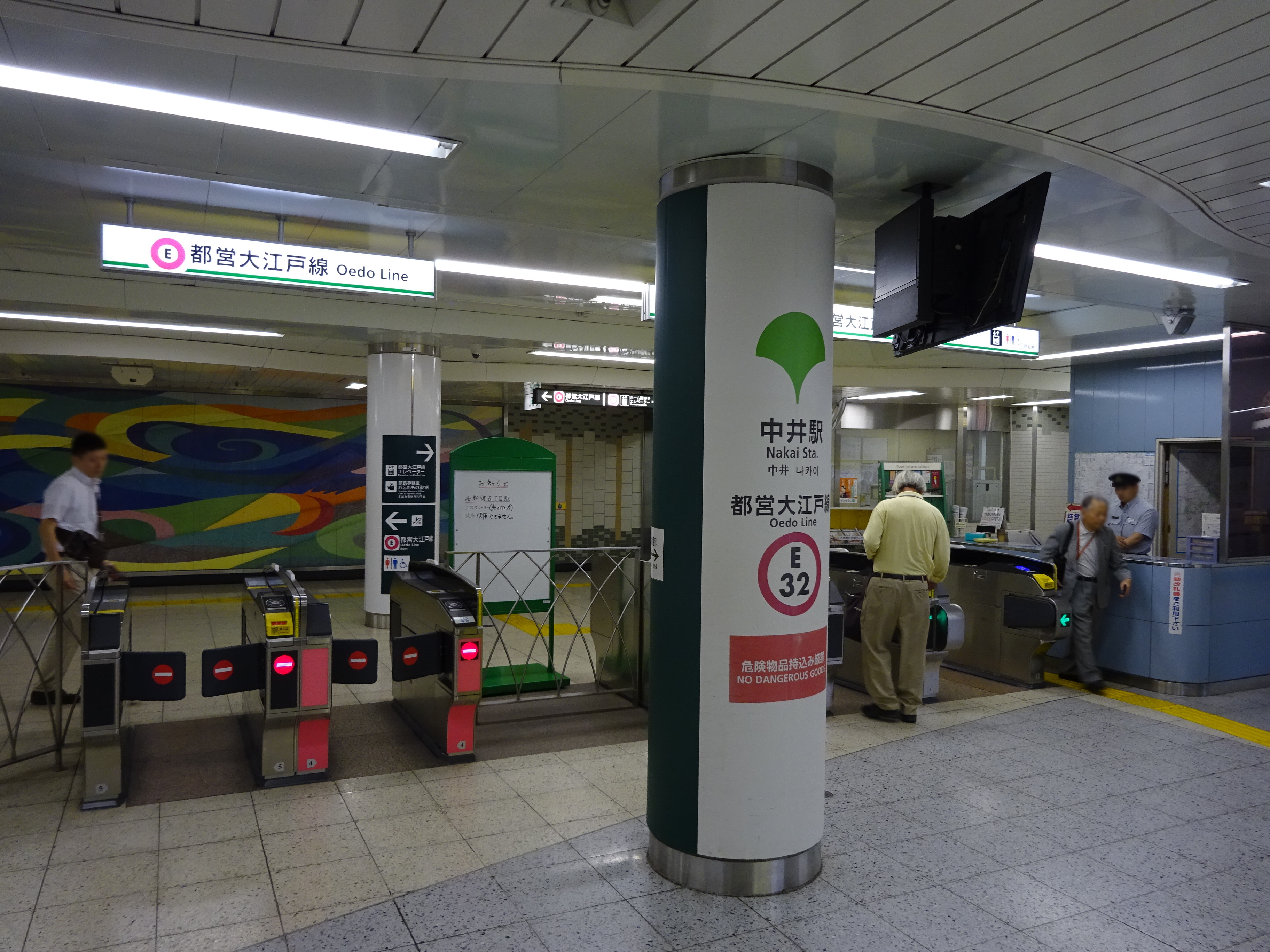 Ticket barriers of Nakai Station(Toei Oedo Line)